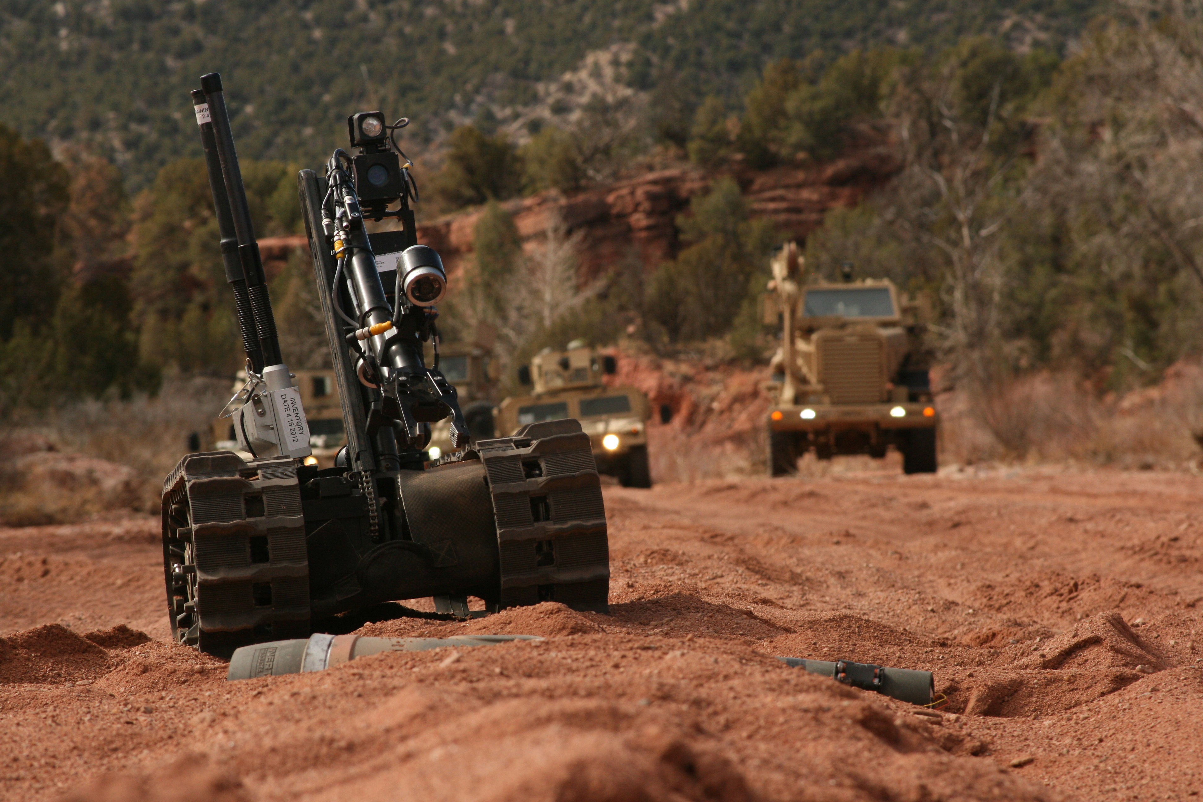 576th Engineers